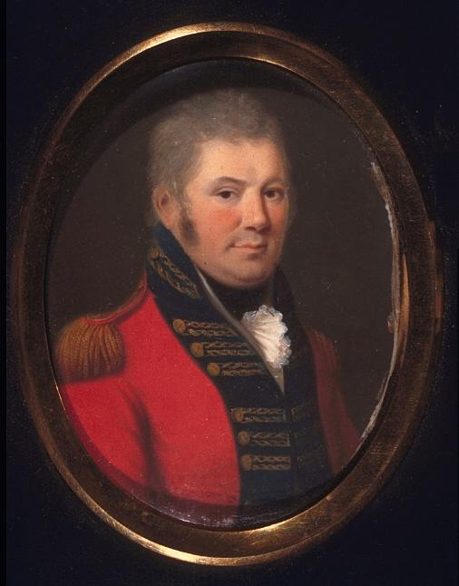 Painting, miniature, Portrait of Lieutenant General John Graves Simcoe (1752-1806), Anonymous, About 1796, 8.2 x 6.3 cm